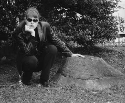 Caitlín R. Kiernan outside the Birmingham Public Library, Birmingham, Alabama, with a fossil tree stump.